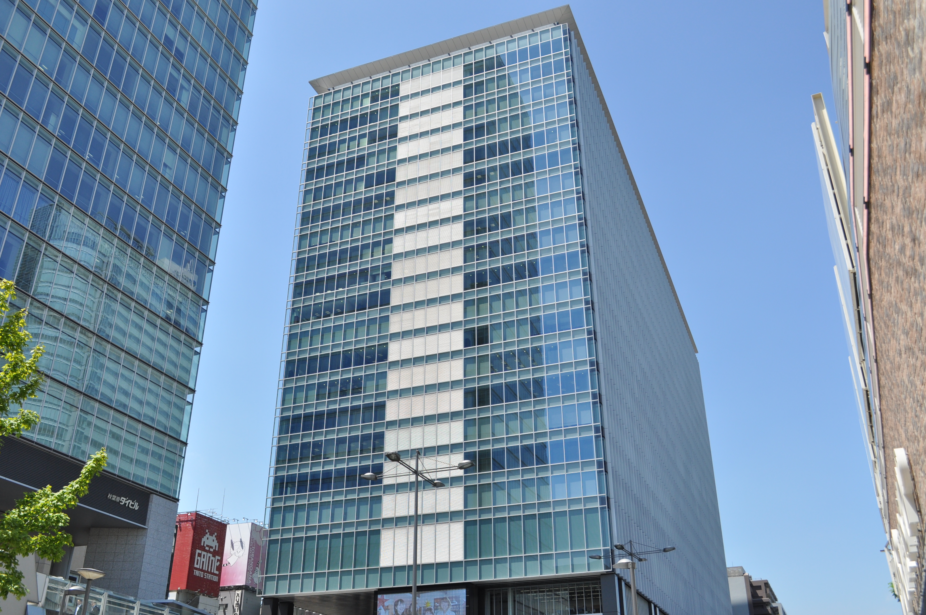 Akihabara UDX in Akihabara